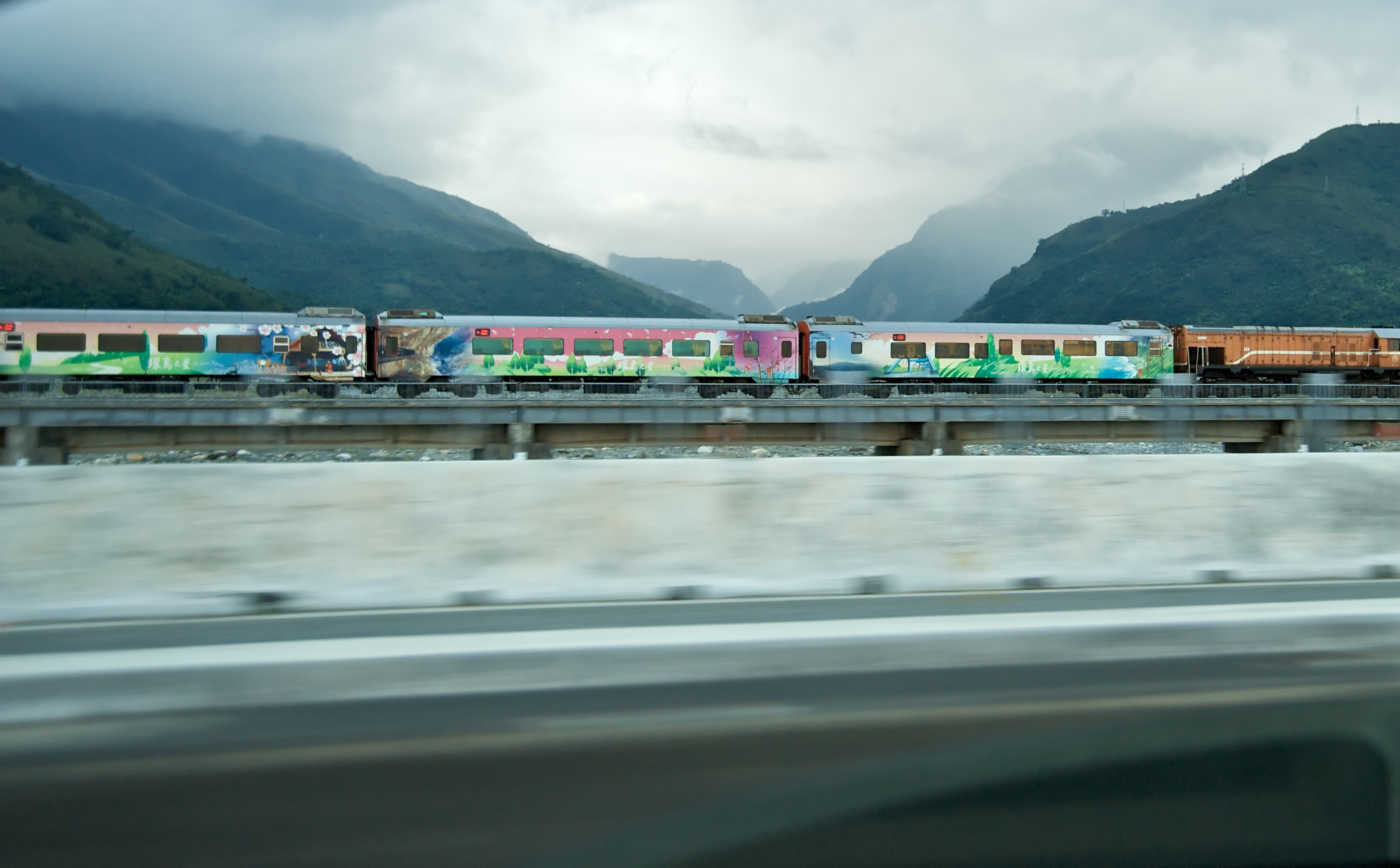 TRA Formosa Express, a five-star tourist train, races sedans running alongside it on highway in Ji'an Township, Hualien County.